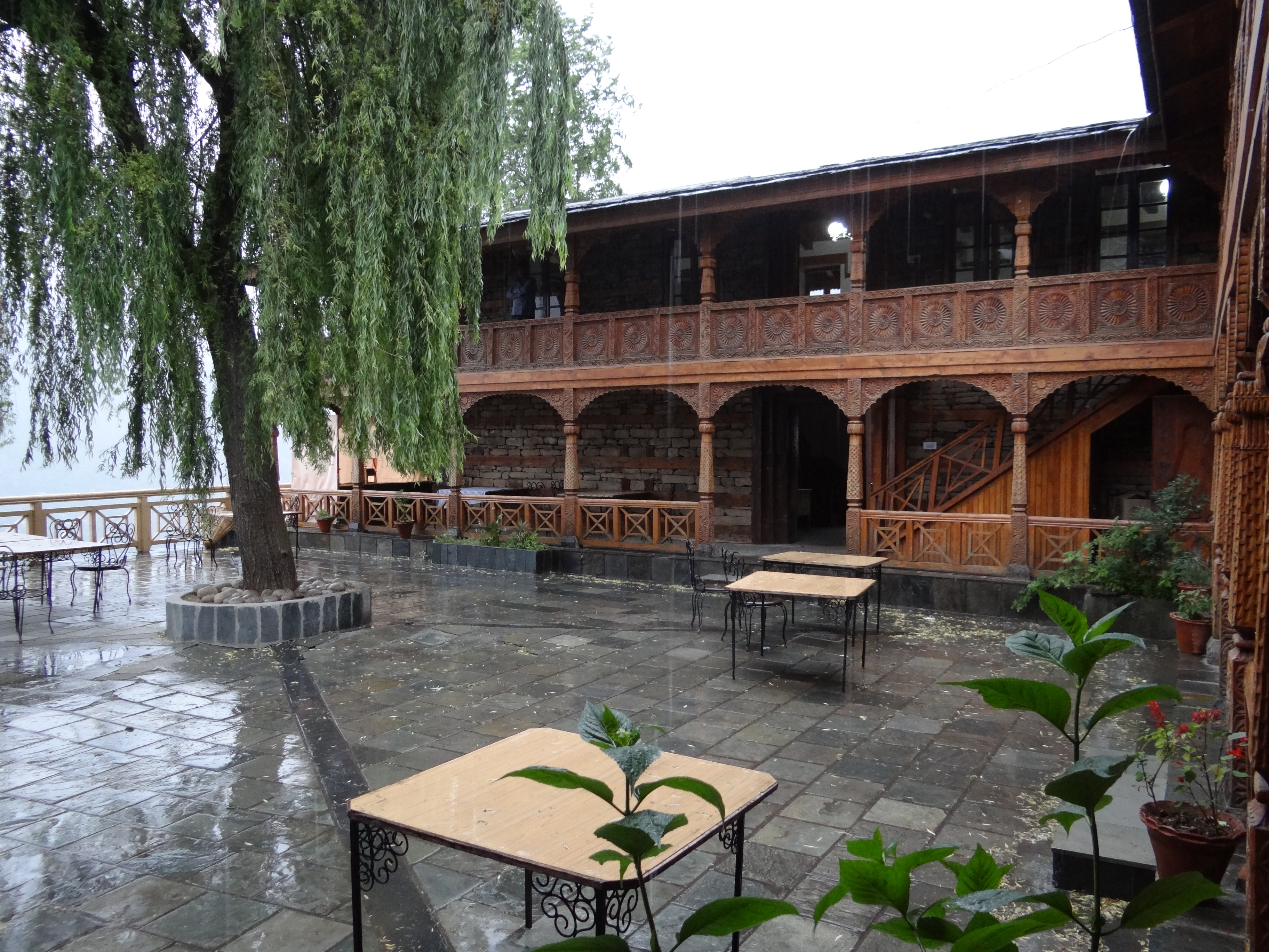 Naggar Castle